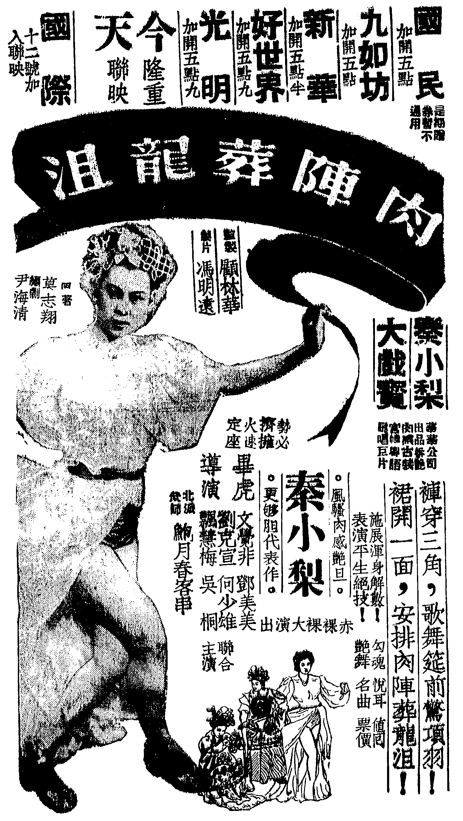 Advertisement of Hong Kong Cantonese film "Sex to Kill the Devil" in 1949. 中文（香港）: 1949年香港粵語片《肉陣葬龍沮》廣告